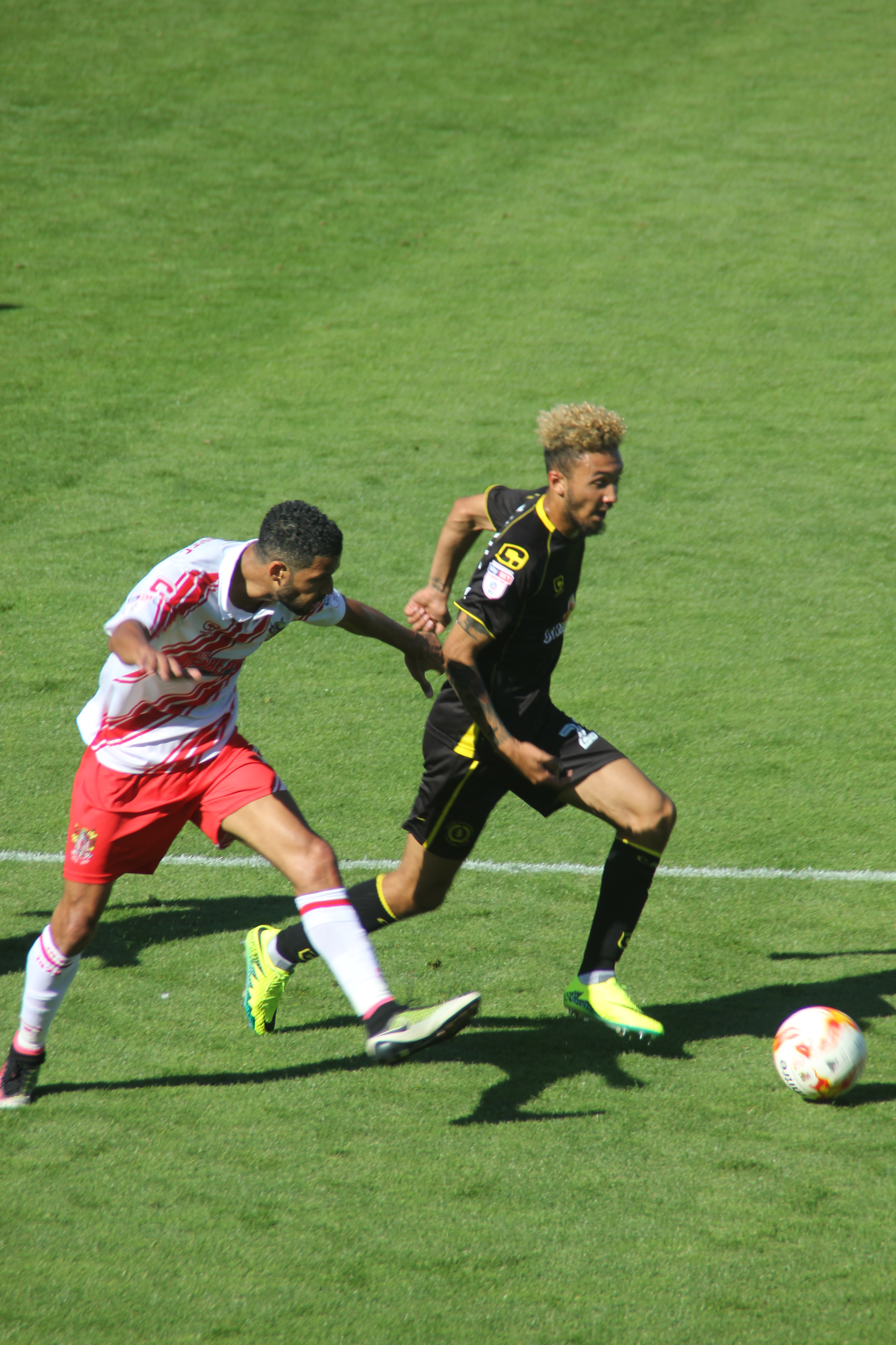 Crewe Alexandra striker Alex Kiwomya beats Stevenage defender just before scoring his first professional goal in 2-1 win at Stevenage's Broadhall Way stadium